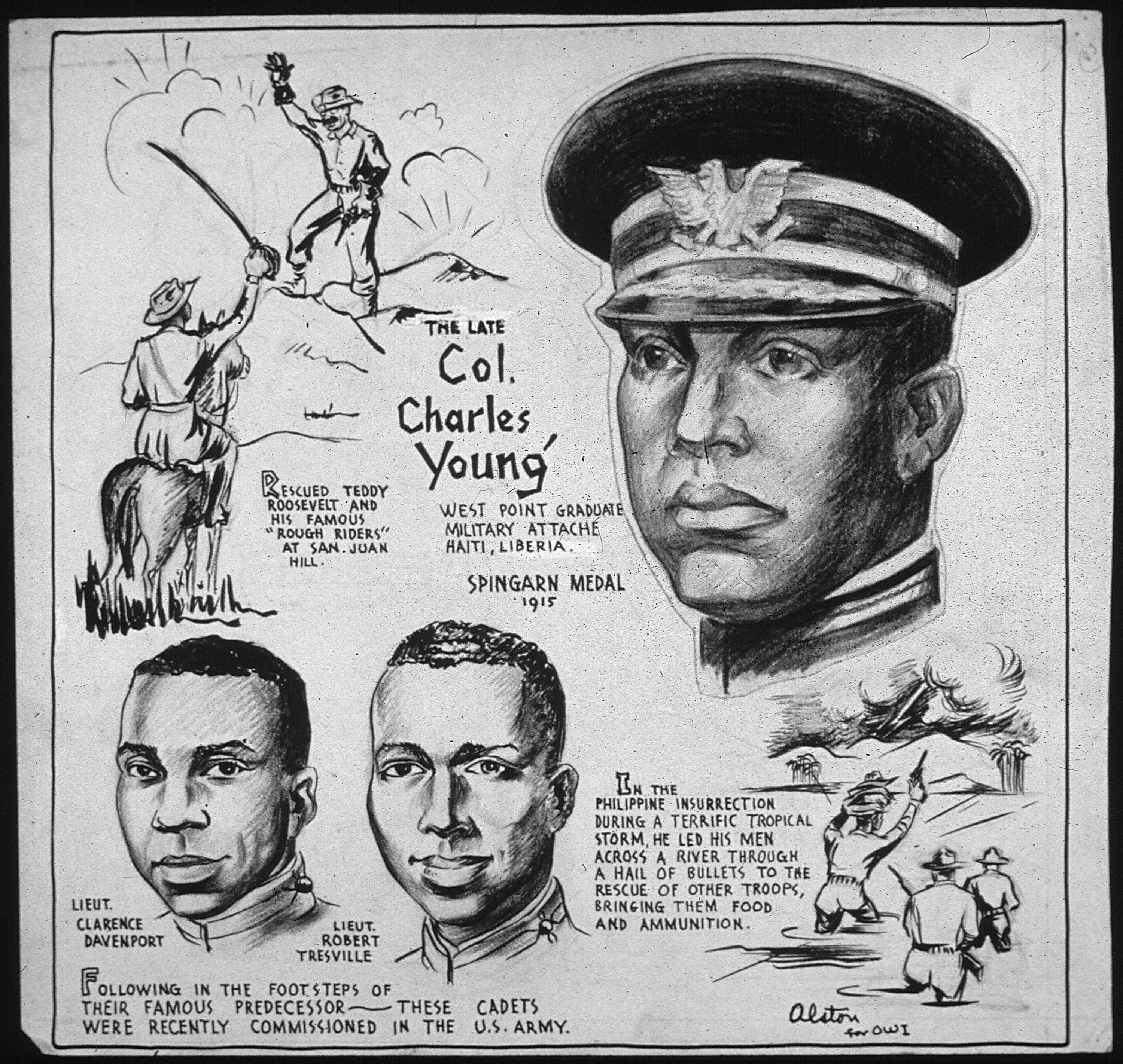 1943 cartoon about the life of Colonel Charles Young, by Charles Alston. Charles Young was the third African American graduate of West Point, the first black U.S. National Park Service superintendent, the first African American military attaché, and the highest ranking black officer in the United States Army until his death in 1922.